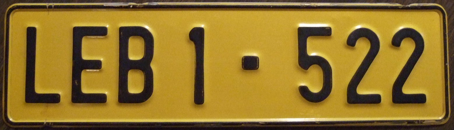 License plate from Lebowa homeland, South Africa, 1974